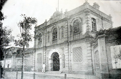 Campus No.3, Peking University, Gate